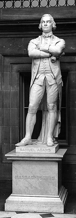 Samuel Adams Given by Massachusetts to the National Statuary Hall Collection.